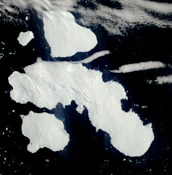 From top to bottom: D'Urville Island, Joinville Island (largest) and Dundee Island